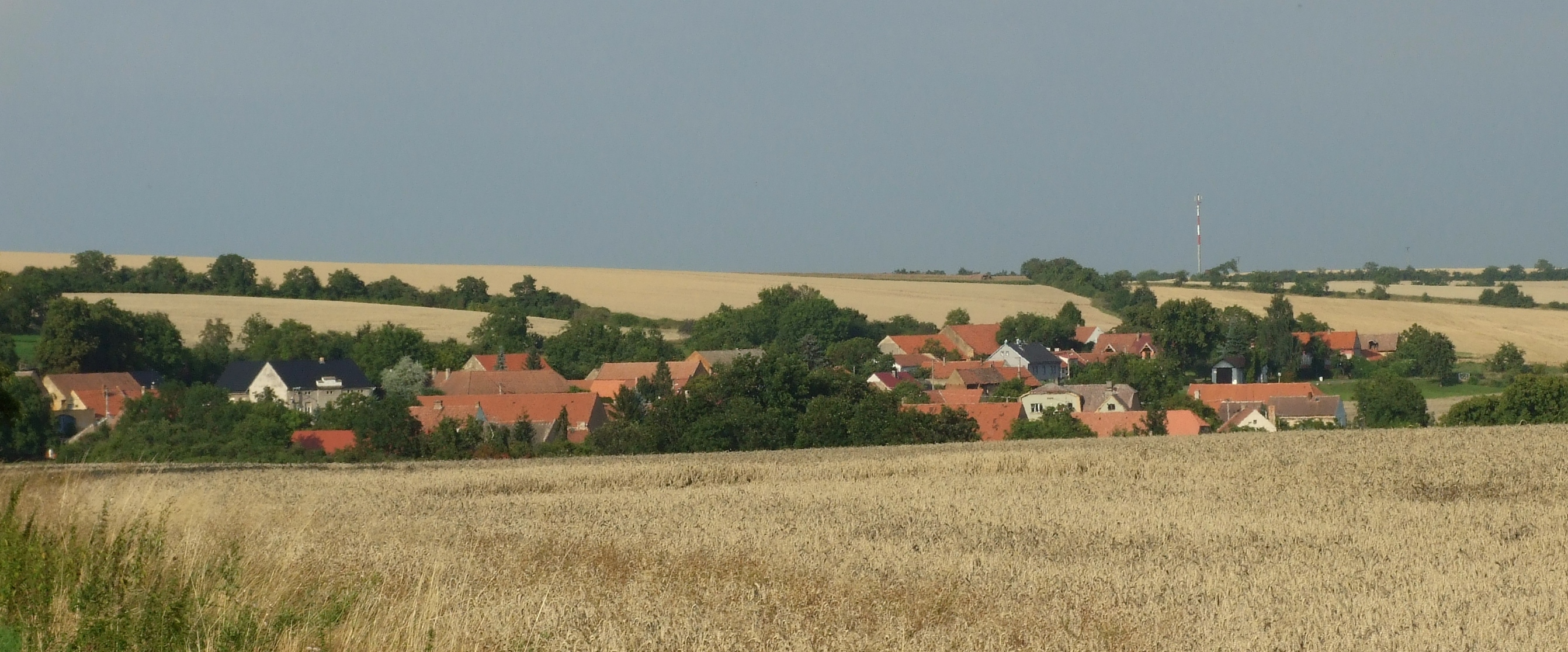 Town of Úherce seen from south, Louny District, Ústí nad Labem Region, CZ